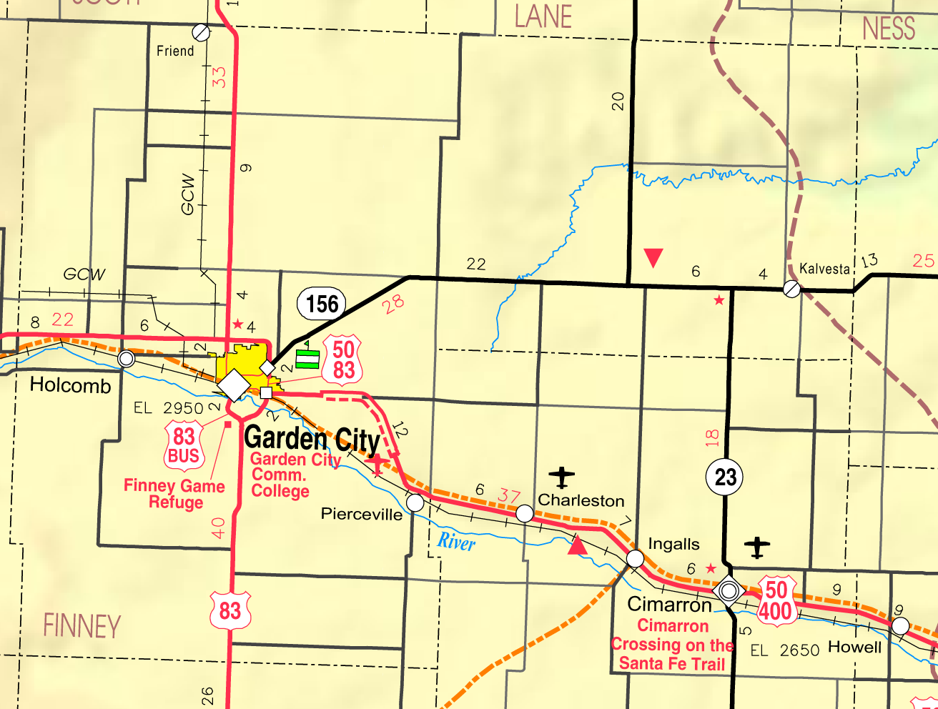 This map of Finney County, Kansas, USA, is copied at a resolution of 300 pixels/inch from the original PDF file.